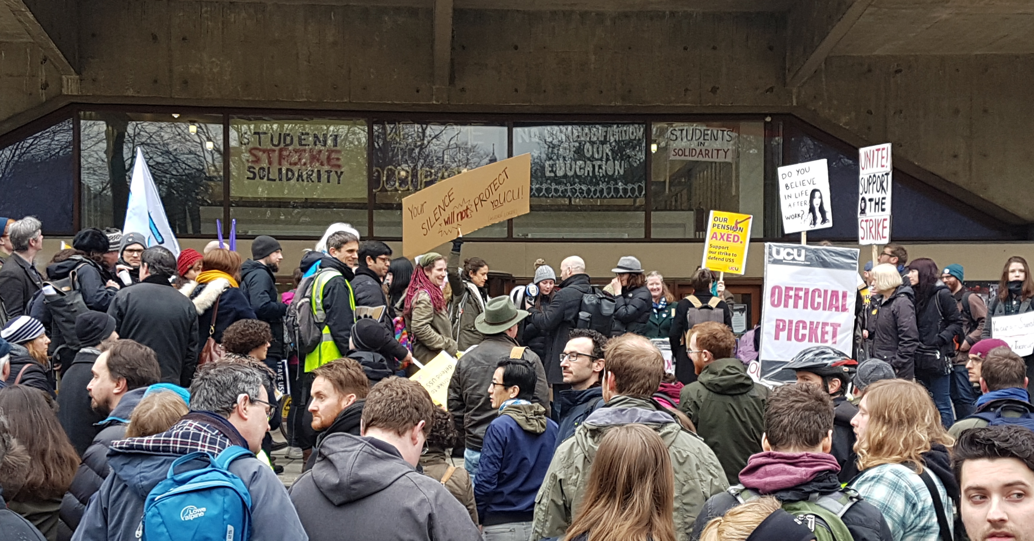 Picket at the University of Edinburgh